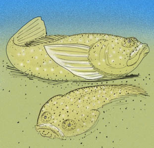 Reconstruction of the extinct stargazer, Astroscopus countermani, of Miocene Maryland